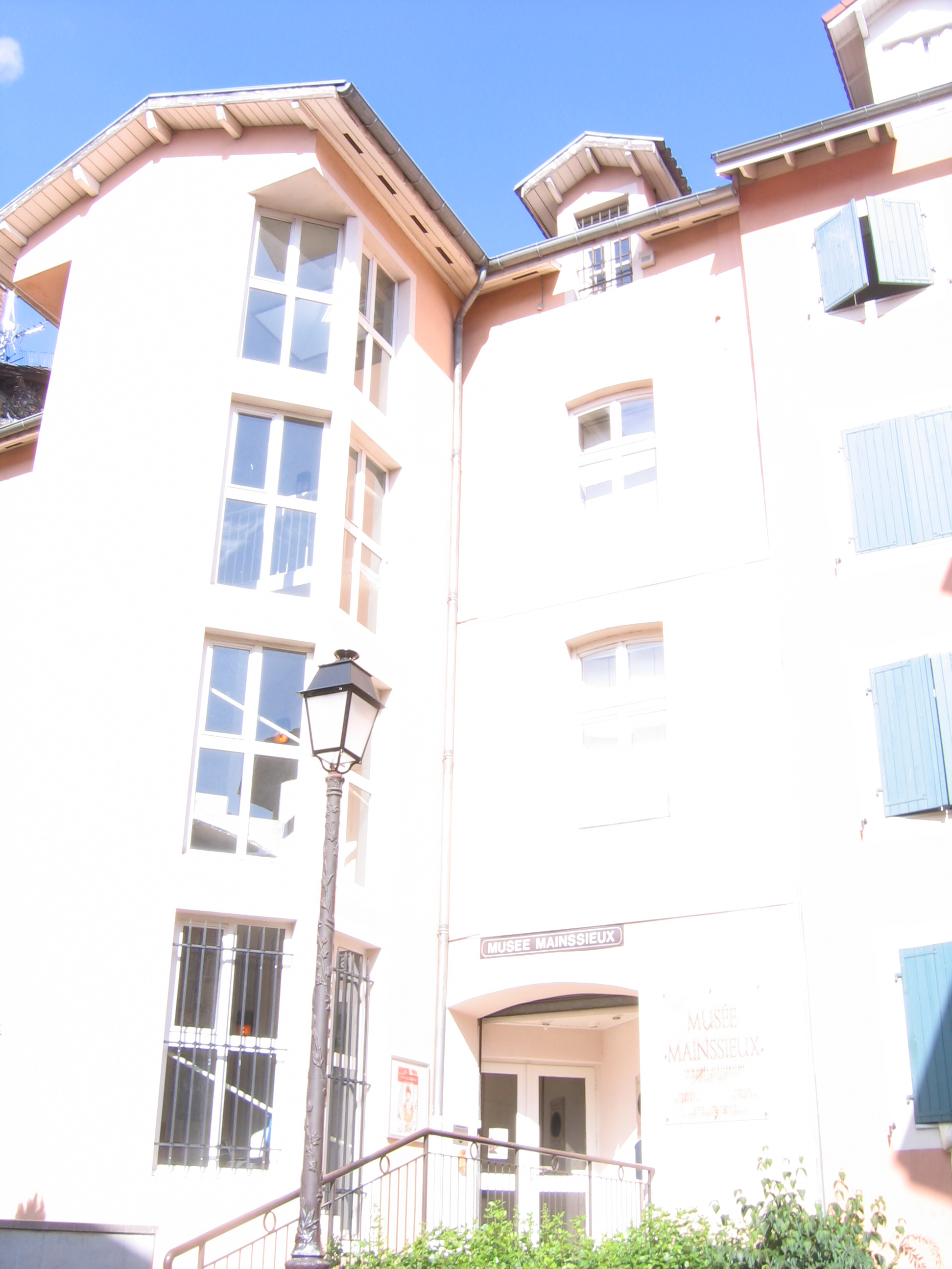 Musee Mainssieux, Voiron